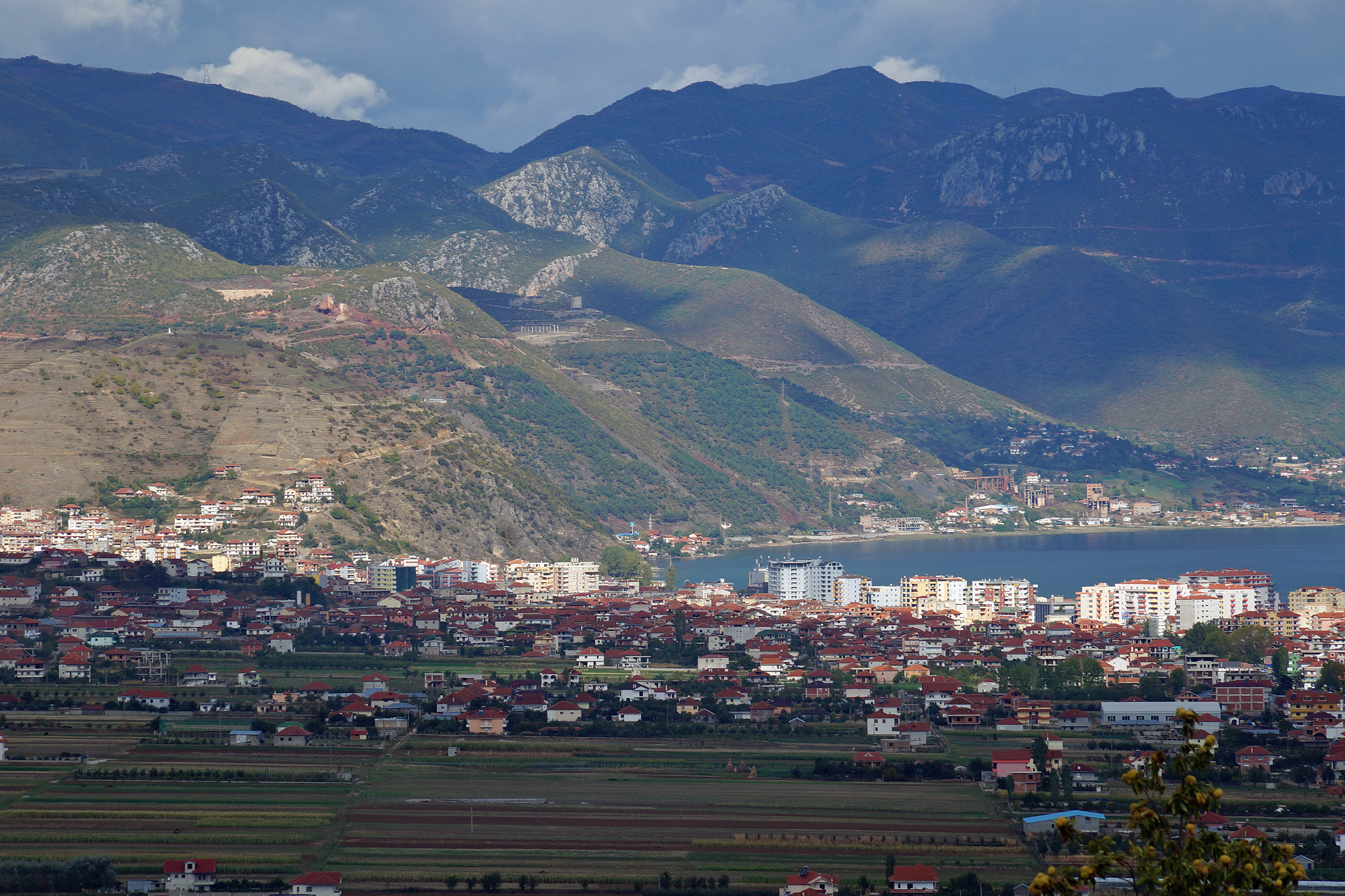 Pogradec at Lake Ohrid in Albania seen from South (Qafë Plloçë – Plloça-Pass)